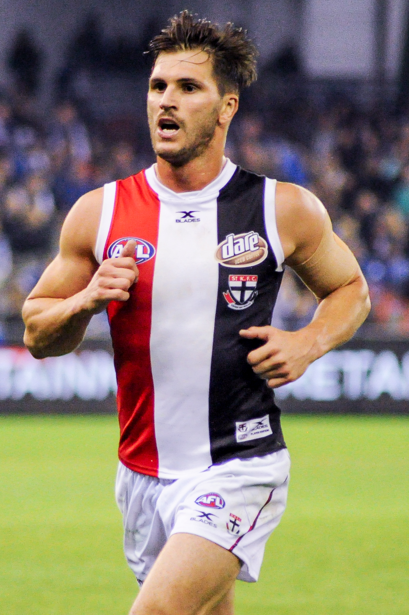 Koby Stevens during the AFL round thirteen match between North Melbourne and St Kilda on 16 June 2017 at Etihad Stadium in Melbourne, Victoria.